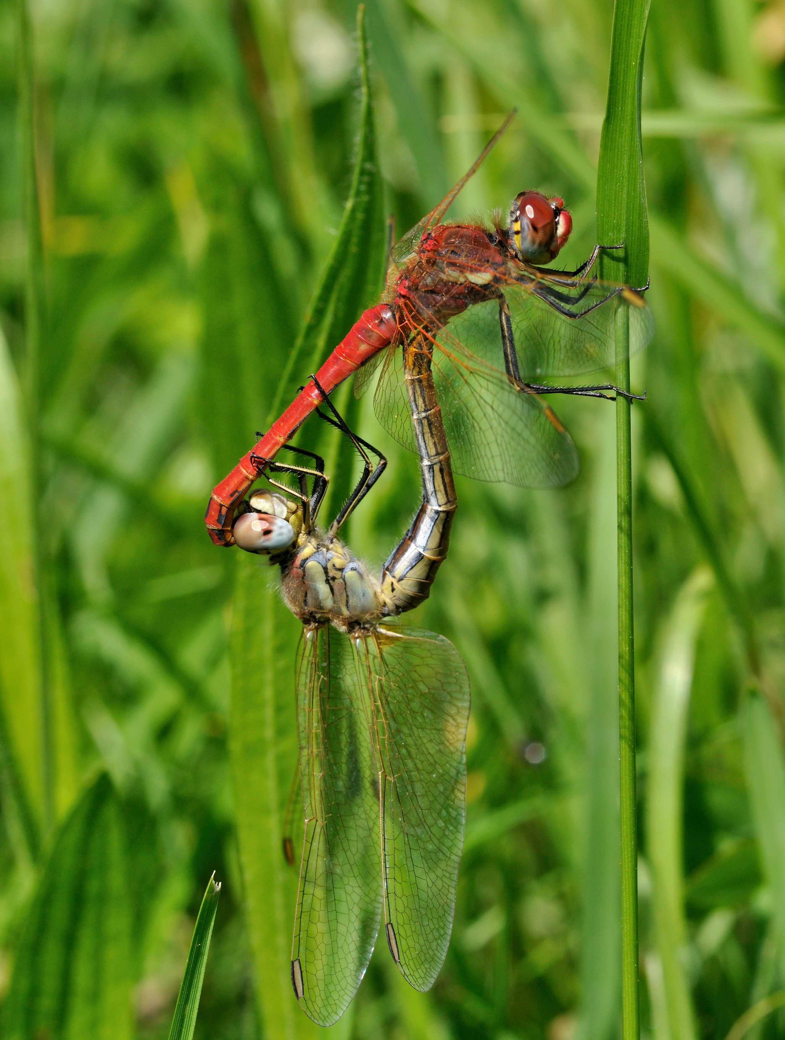 Mating wheel of Red-veined darters (Sympetrum fonscolombii) in Munich, Germany.